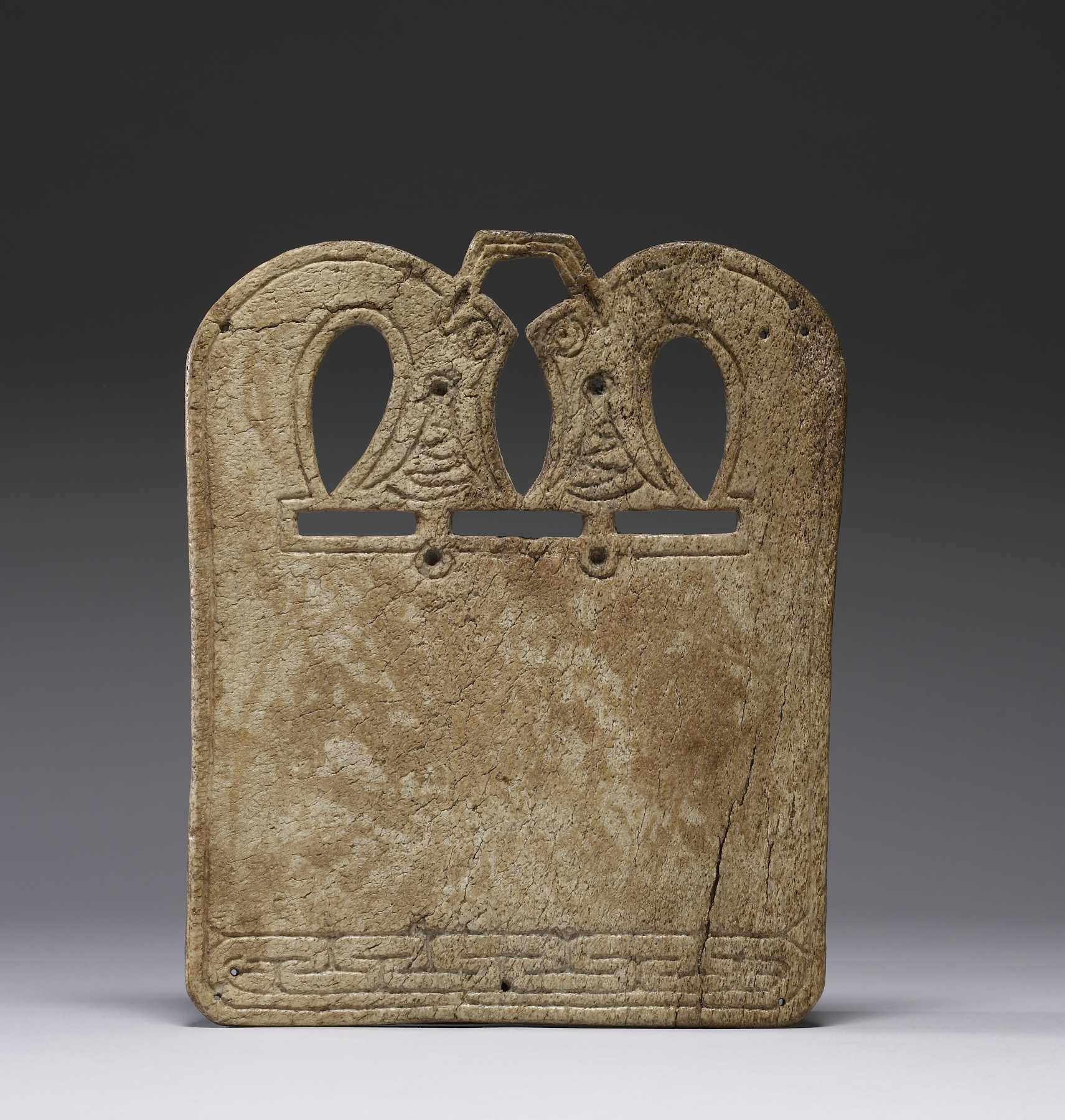 Similar plaques of whale bone carved with confronted monster heads are found frequently in the graves of wealthy Viking women in Norway. The monster heads, similar to the figureheads attached to Viking ship prows, are typical of Viking decoration. The function of these plaques is not clear; it has been suggested that they were used as ironing-boards or for pleating linen (by folding and winding it around the board while wet and then leaving it to dry), or as trenchers for serving food.